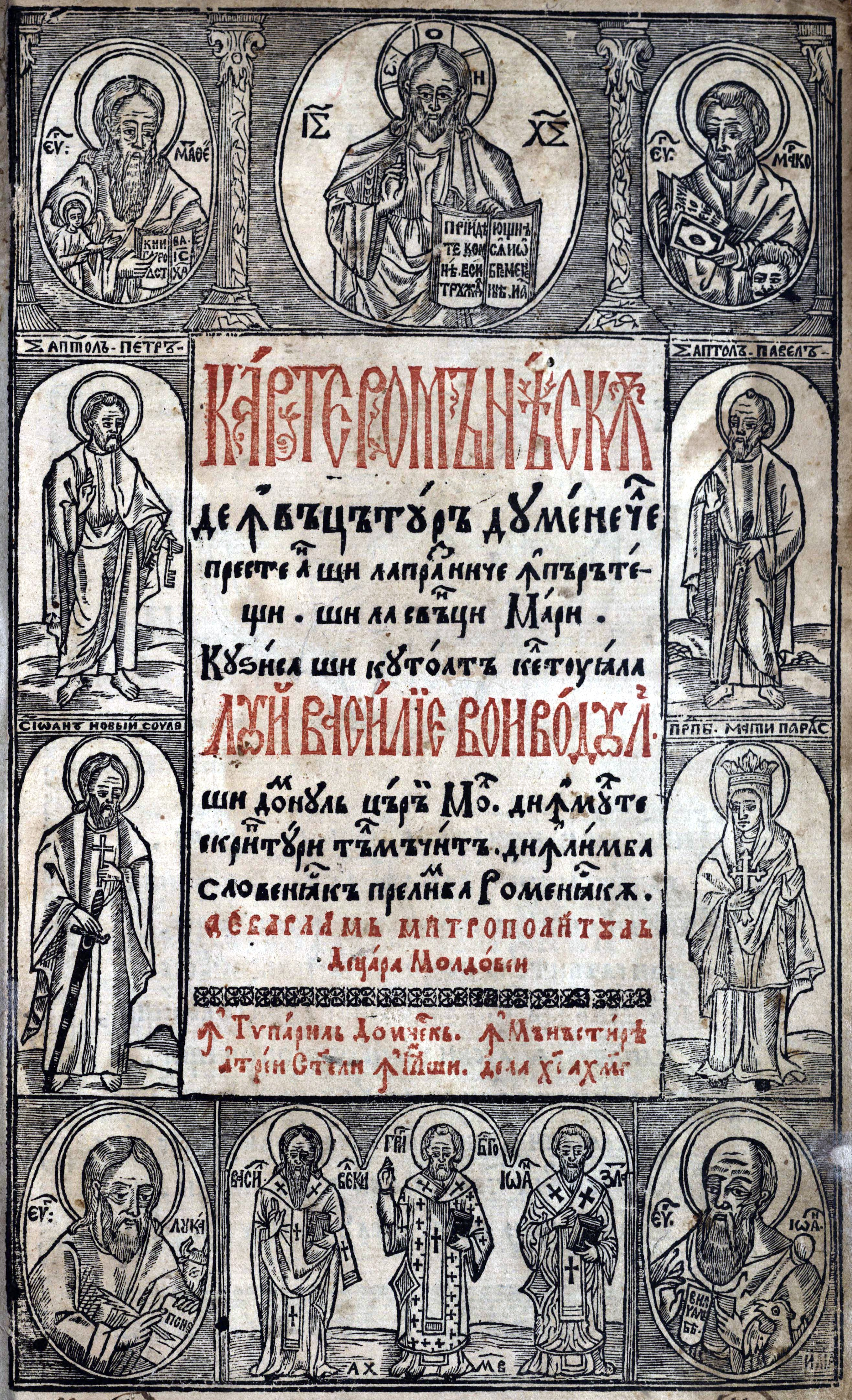 Carte Românească de Învăţătură (Romanian Book of Learning). Religious book edited in Moldavia in 1643